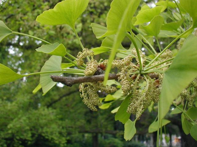 'Gingo biloba' with Inflorescences and Leaves.